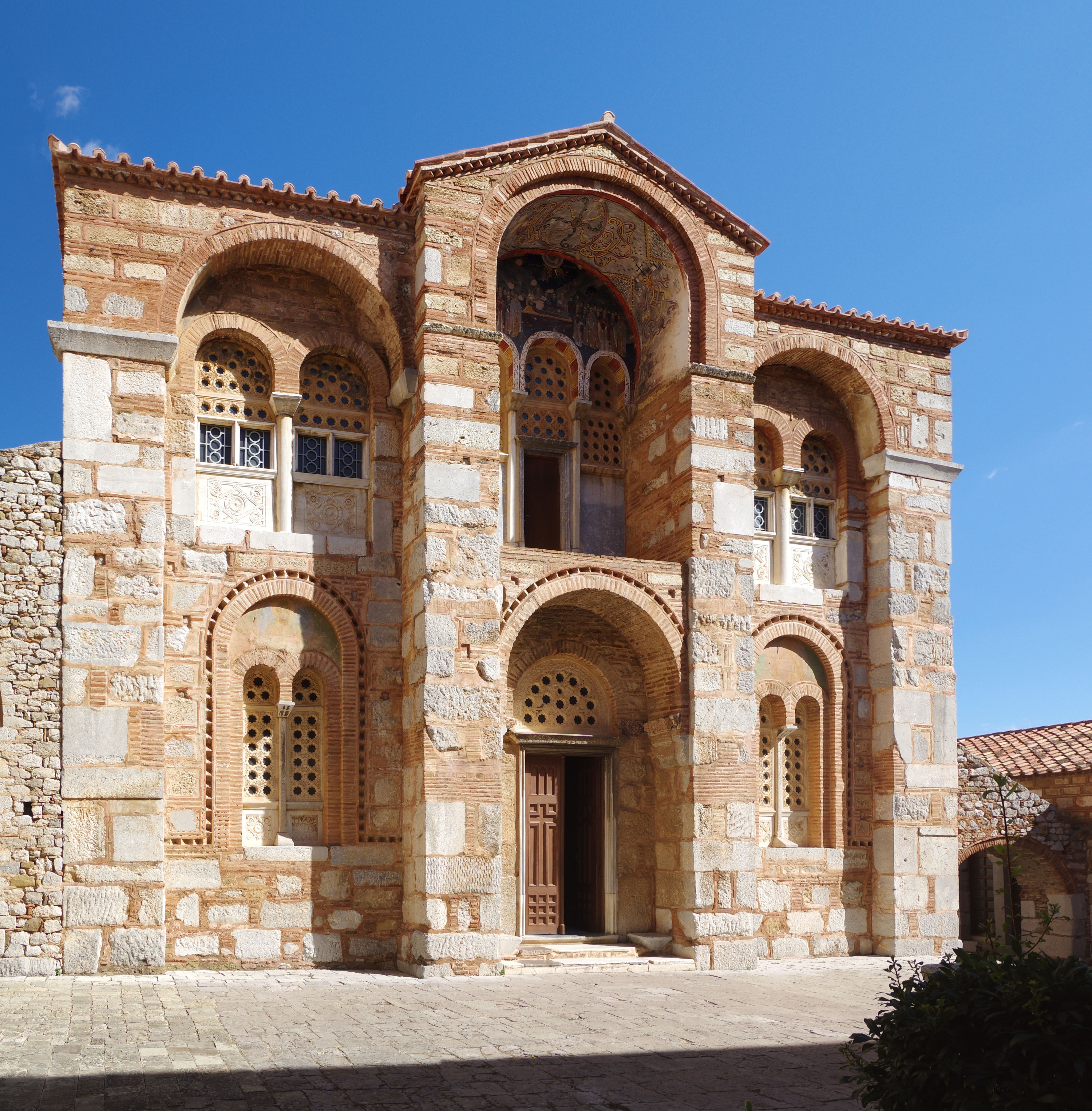 Greece, Monastery of Hosios Loukas